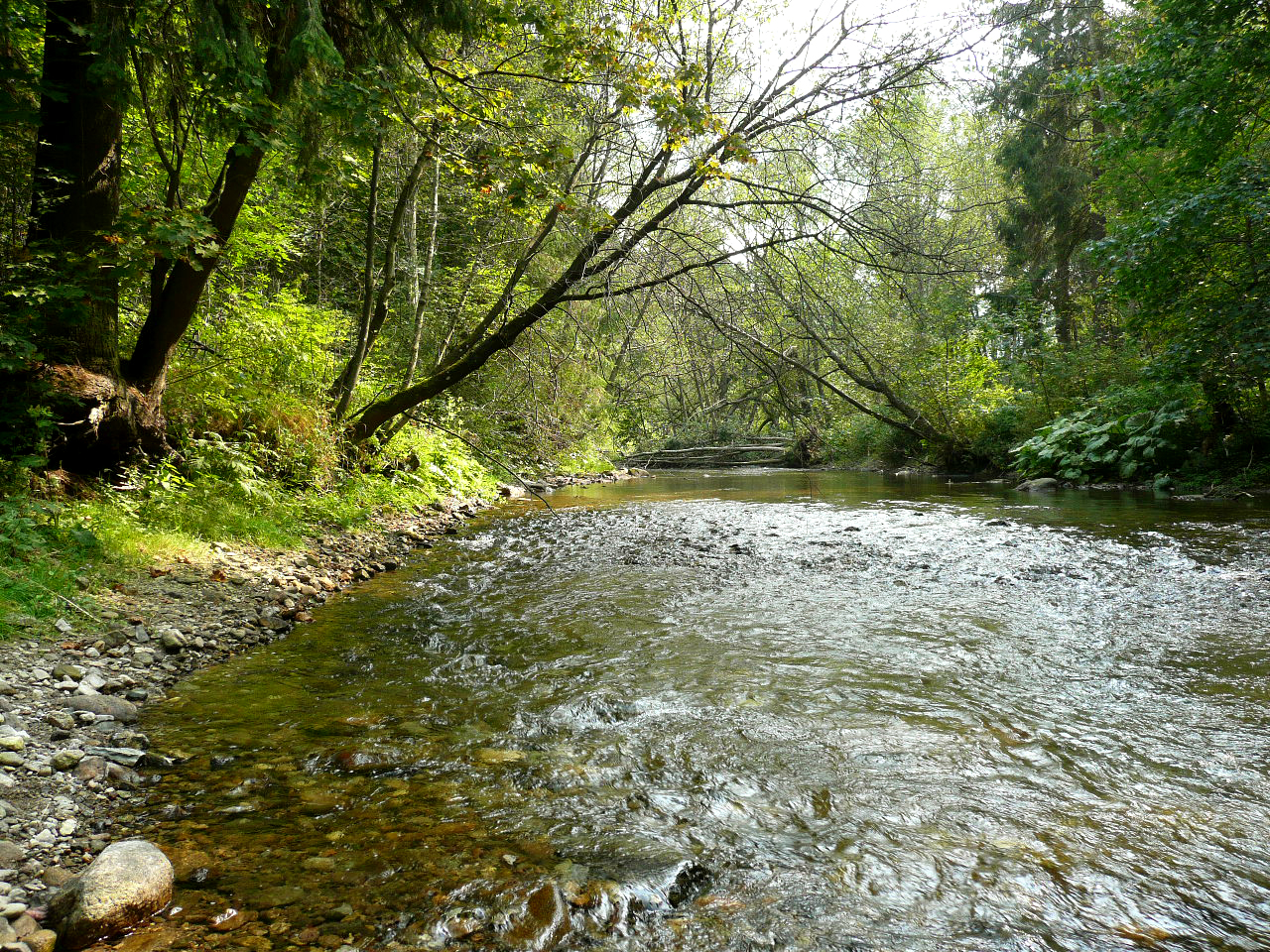 The Hron river at Pohorelá (central Slovakia)